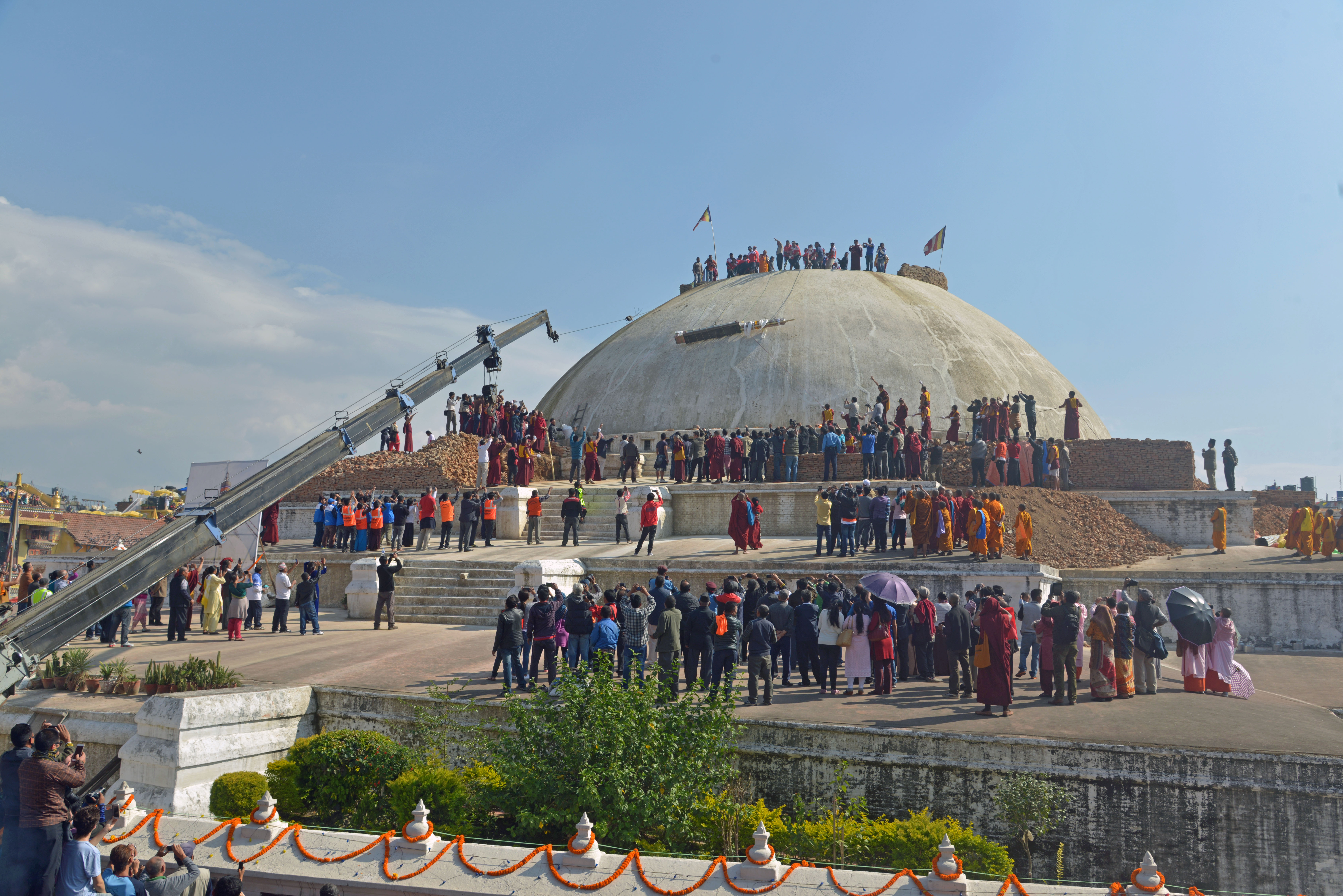 Hoisting the new "life tree" onto the stupa - marking the beginning of the reconstruction of the top of the stupa which was dismantled following severe earthquake damage in April 2015